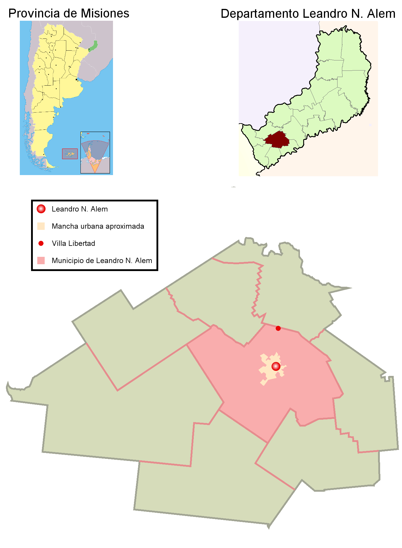 Map showing municipio of Leandro N. Alem in Leandro N. Alem department, Misiones Province, Argentina. Red point is Leandro N. Alem city with its urban area.